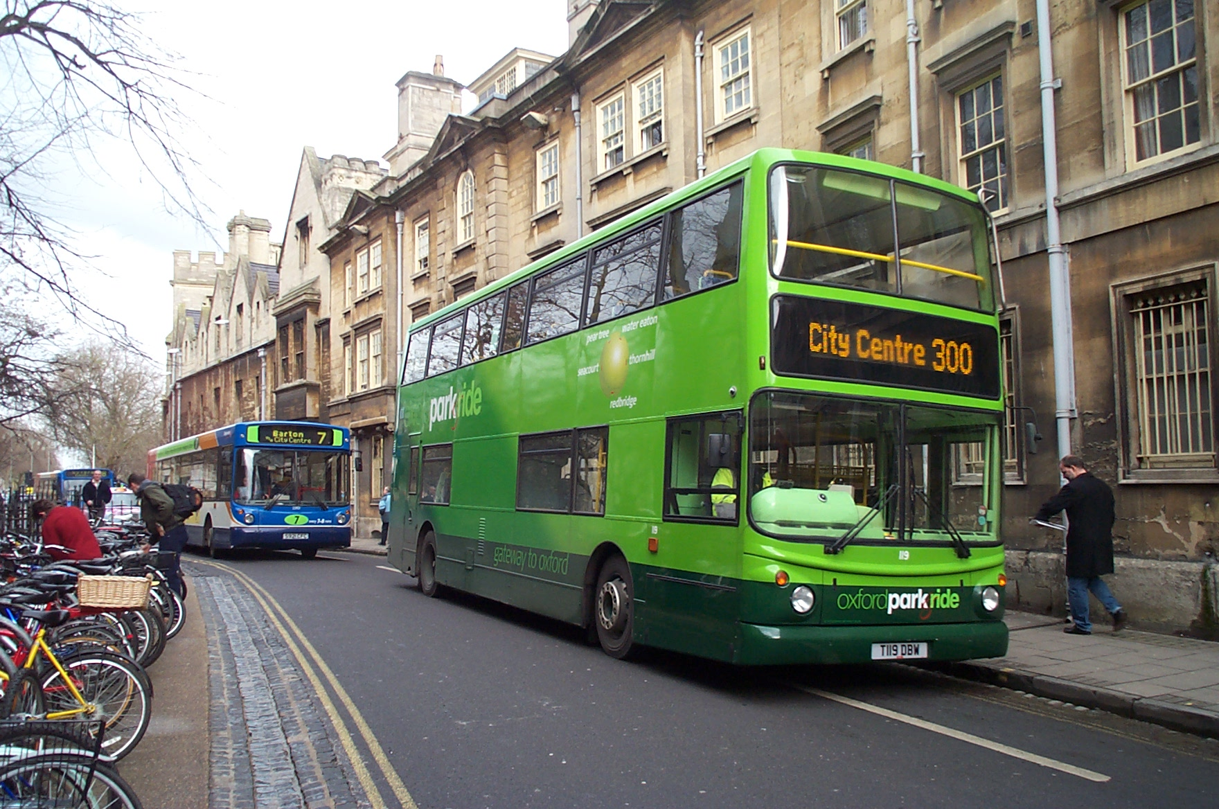 Oxford Bus Company 119 (T119 DBW), a Dennis Trident 2/Alexander ALX400, in Magdalen Street East, Oxford on park and ride route 300.